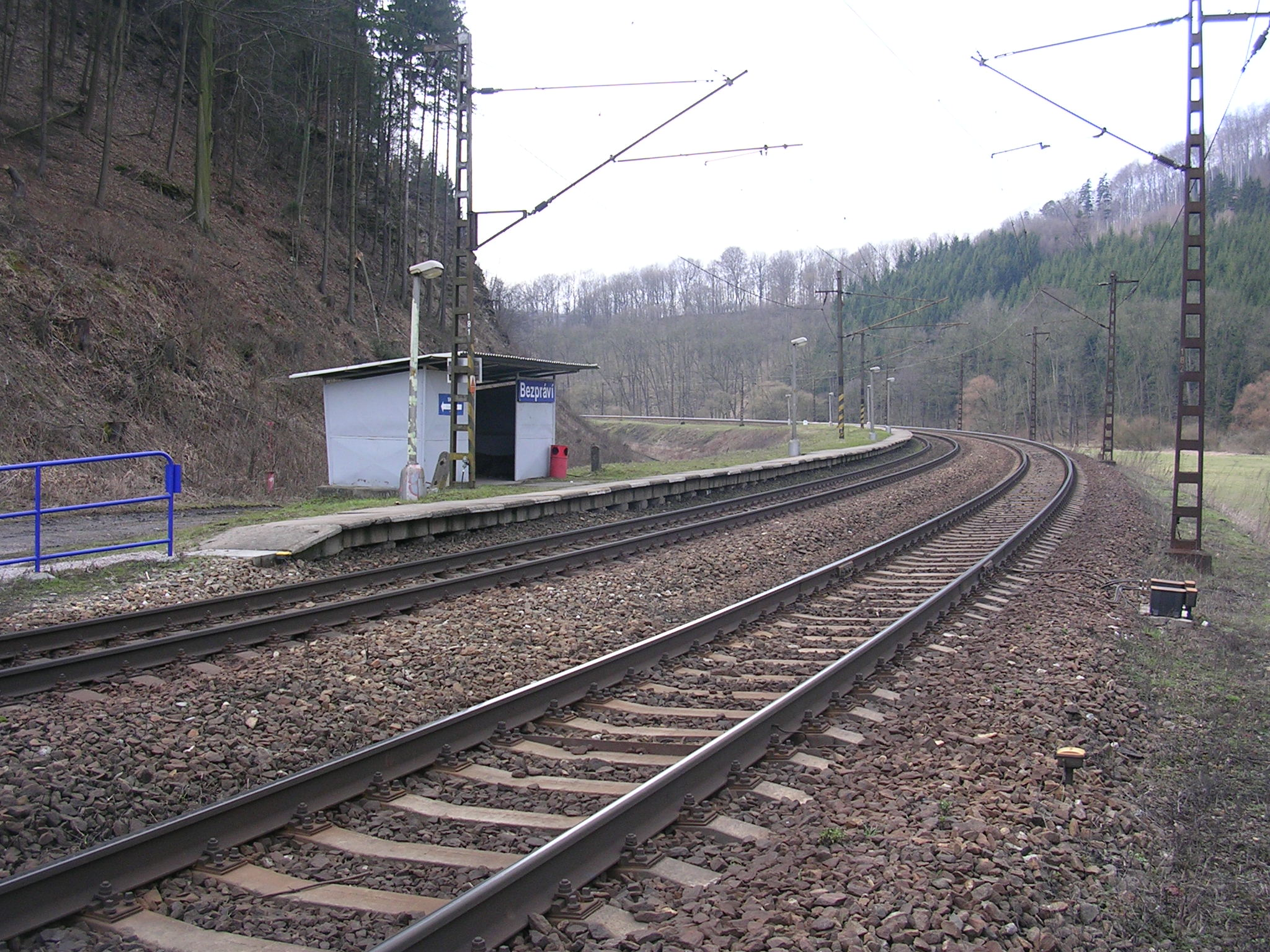 Bezpráví, Orlické Podhůří, the Czech Republic.